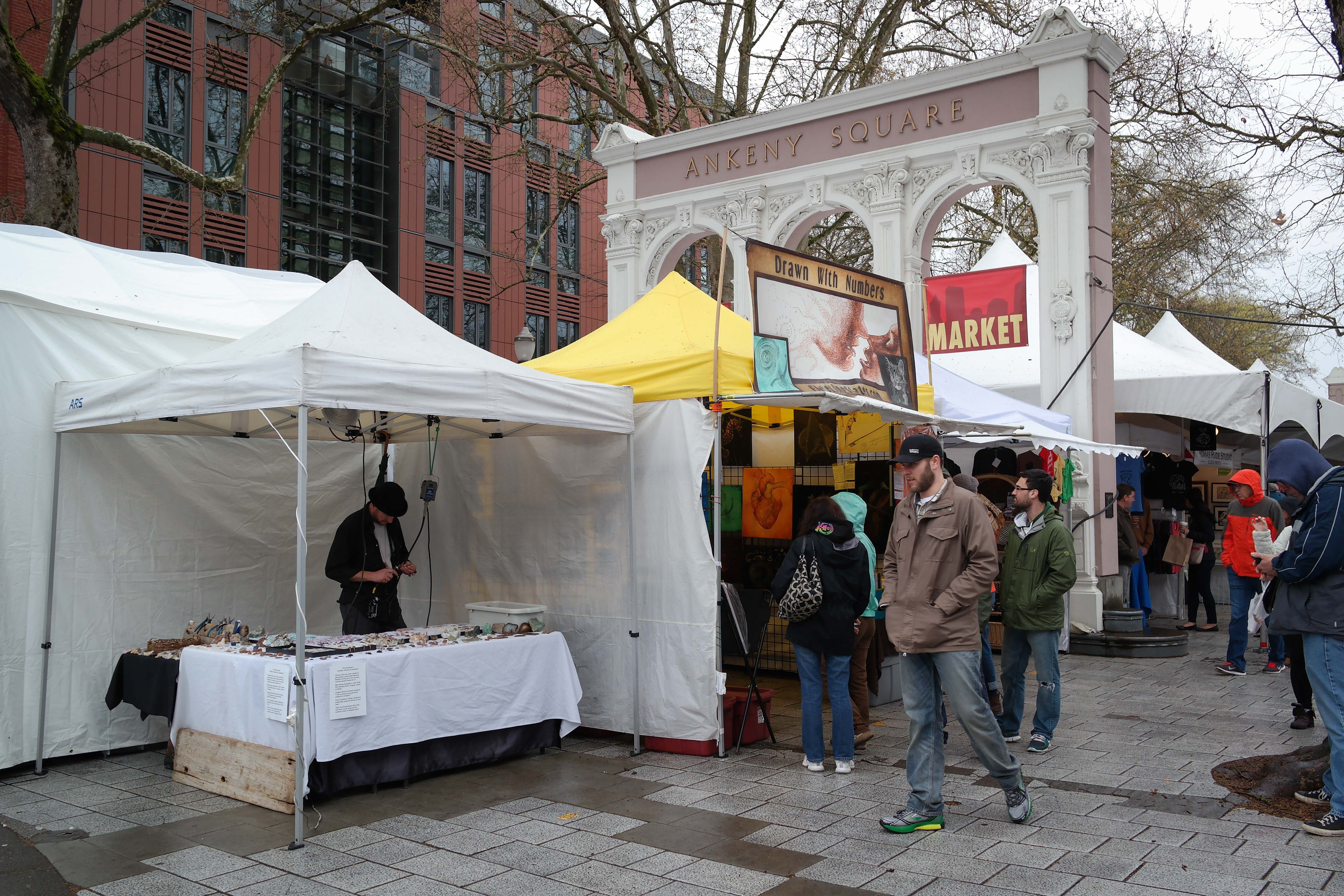 A view of the Portland Saturday Market